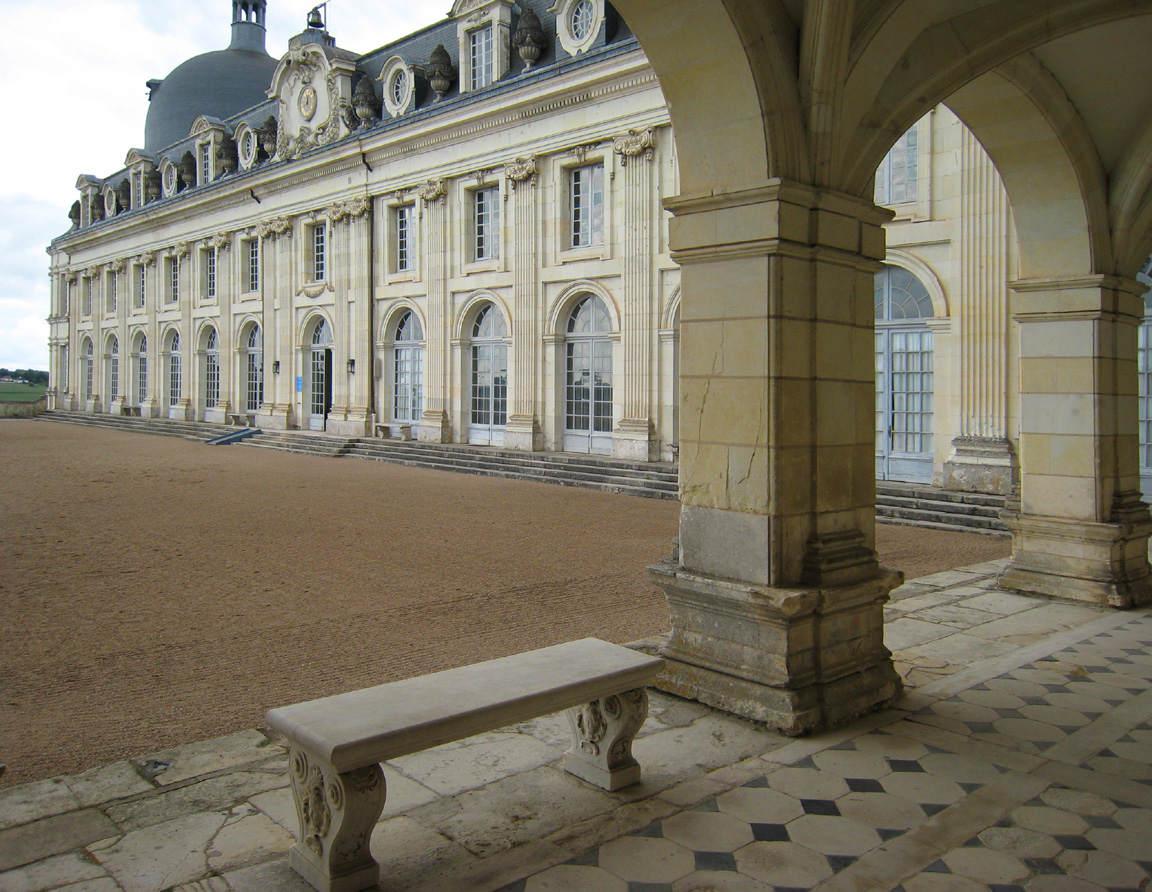 Chateau Valencay, park wing seen from the gallery